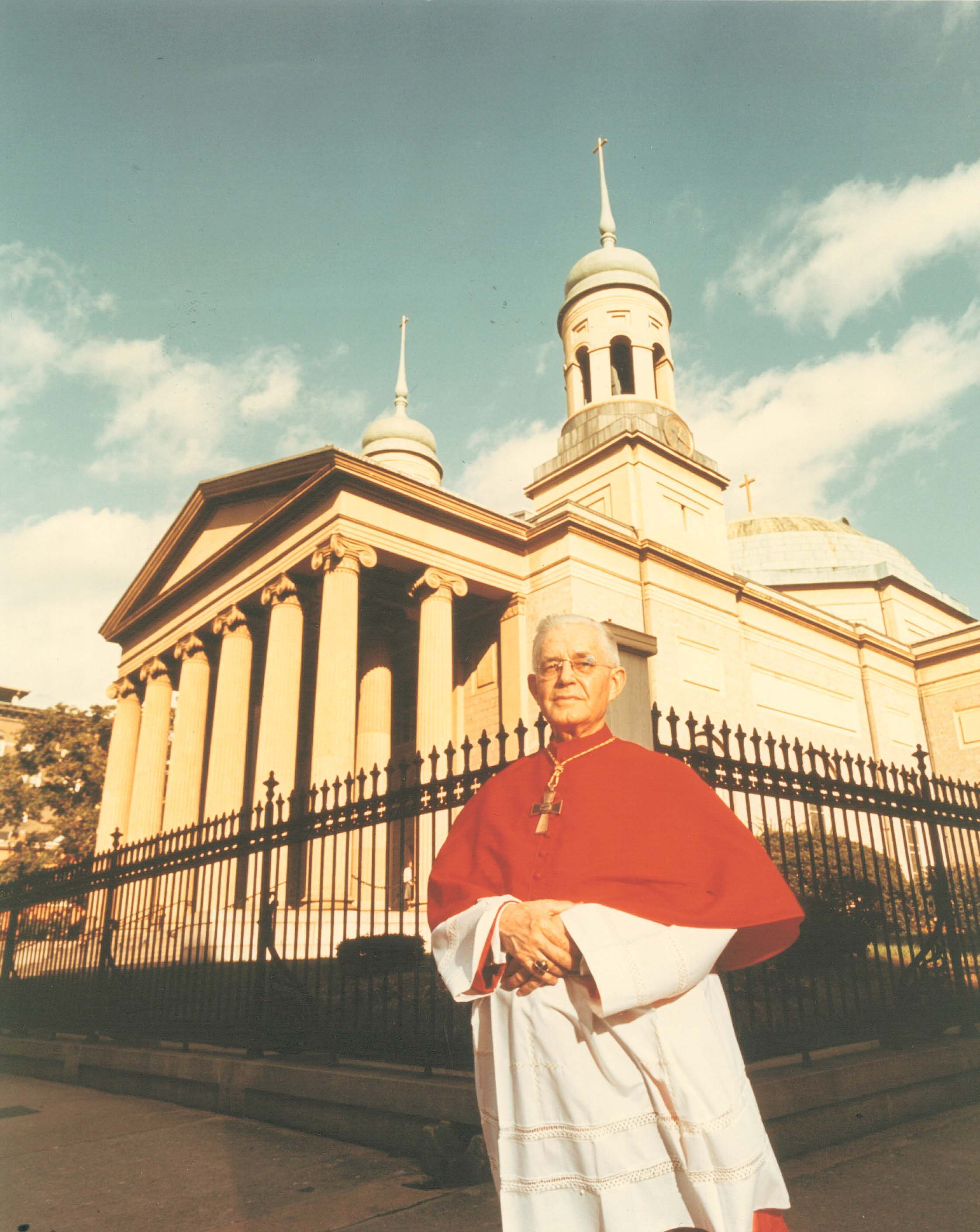 Former Archbishop of Baltimore, Lawrence Cardinal Shehan, in front of the Basilica of the Assumption in Baltimore.